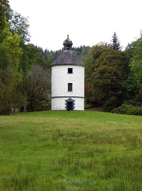 Carloonan Doocot Carloonan Doocot was designed by Roger Morris between 1747 and 1748 and built by William Douglas. In 1776, Robert Mylne produced plans to transform the doocot into a temple however these alterations never took place.